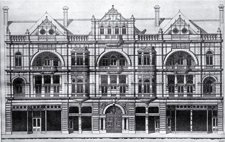 Elevation for the proposed hotel, designed by Messrs S. and A. Luttrell, to be built on the site of the existing hotel. However, with the No Licence vote at the 1902 election the trustees were not able to proceed with the building which would have cost £25,000. A less extravagant design was built in 1905, burnt down in 1908, but reinstated by the Luttrells behind the same façade.